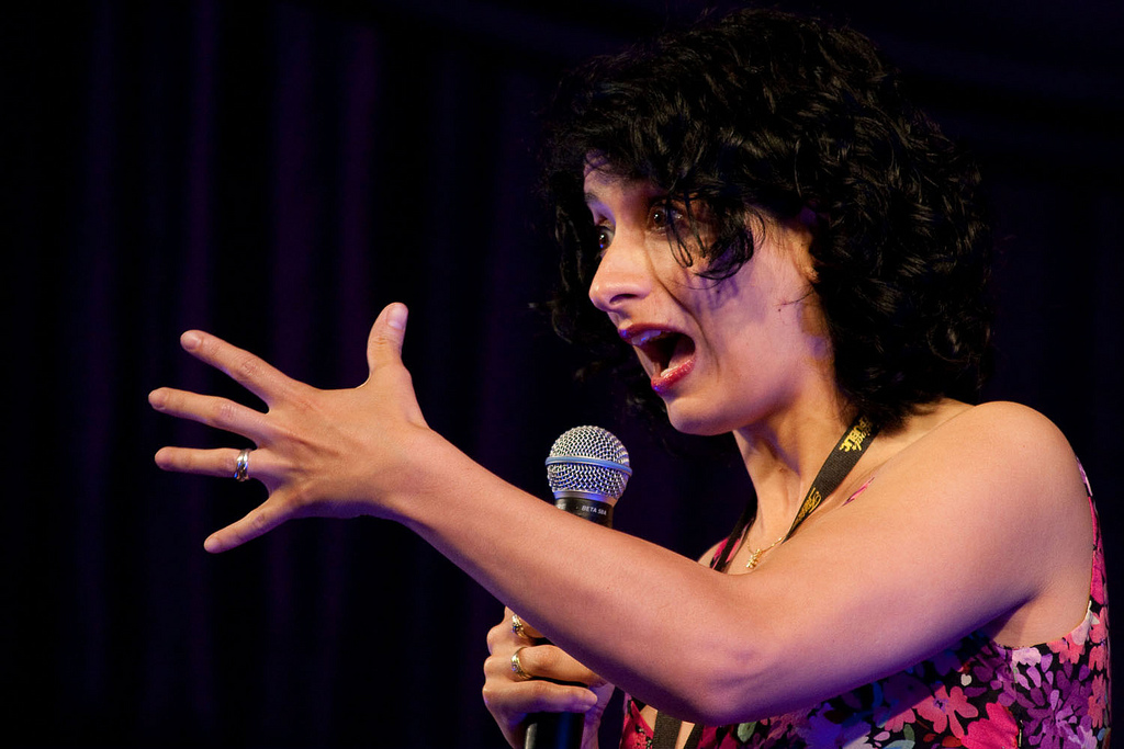 Shappi Khorsandi, Anglo-Iranian stand-up comedian, performing at the Latitude Festival in 2009.